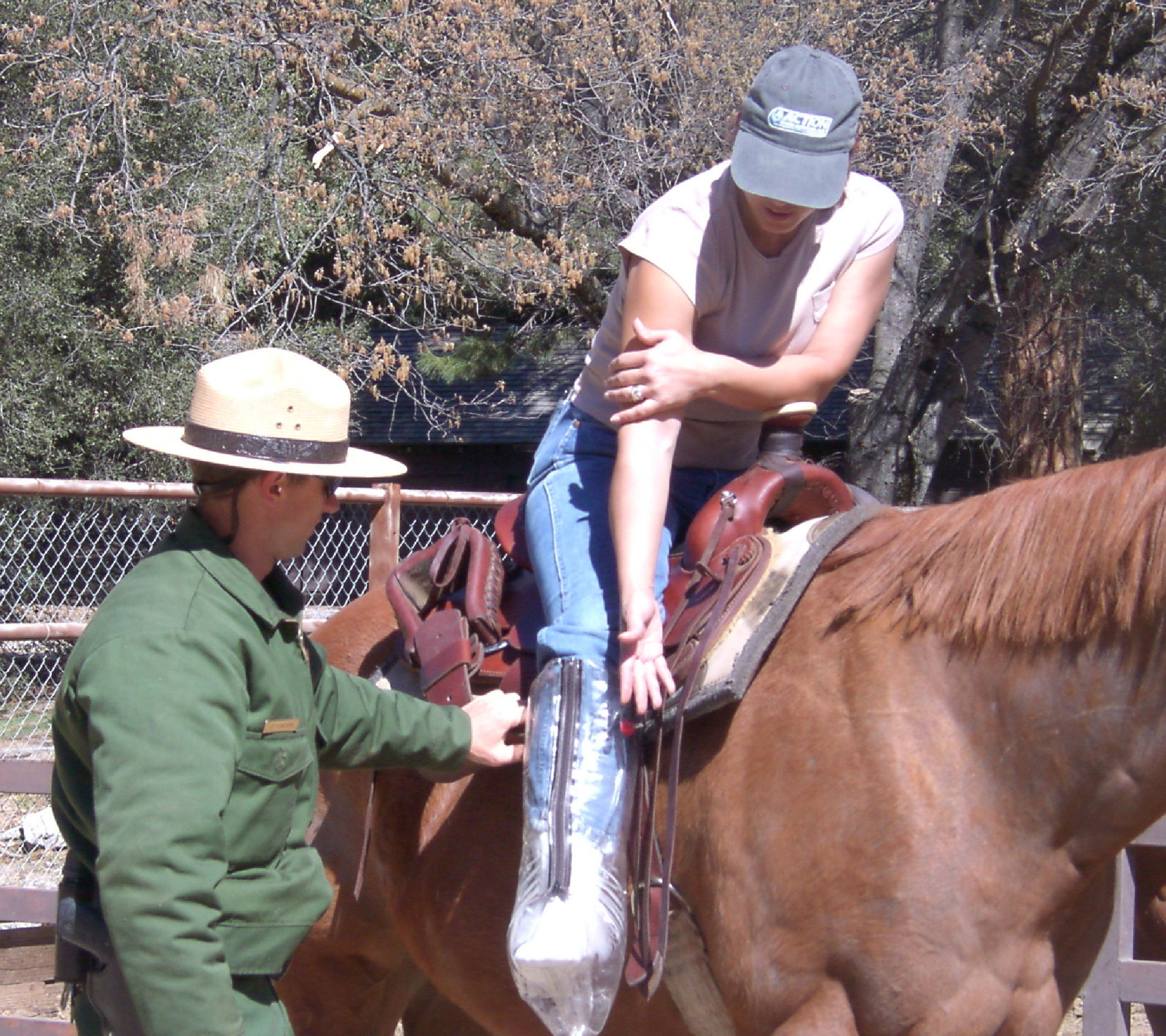 Photo taken @ 2003-4 at training provided by Yosemite National Park mounted personnel. Training for using saddled horses or mules to transport and evacuate an injured person fitting certain qualifying criteria.